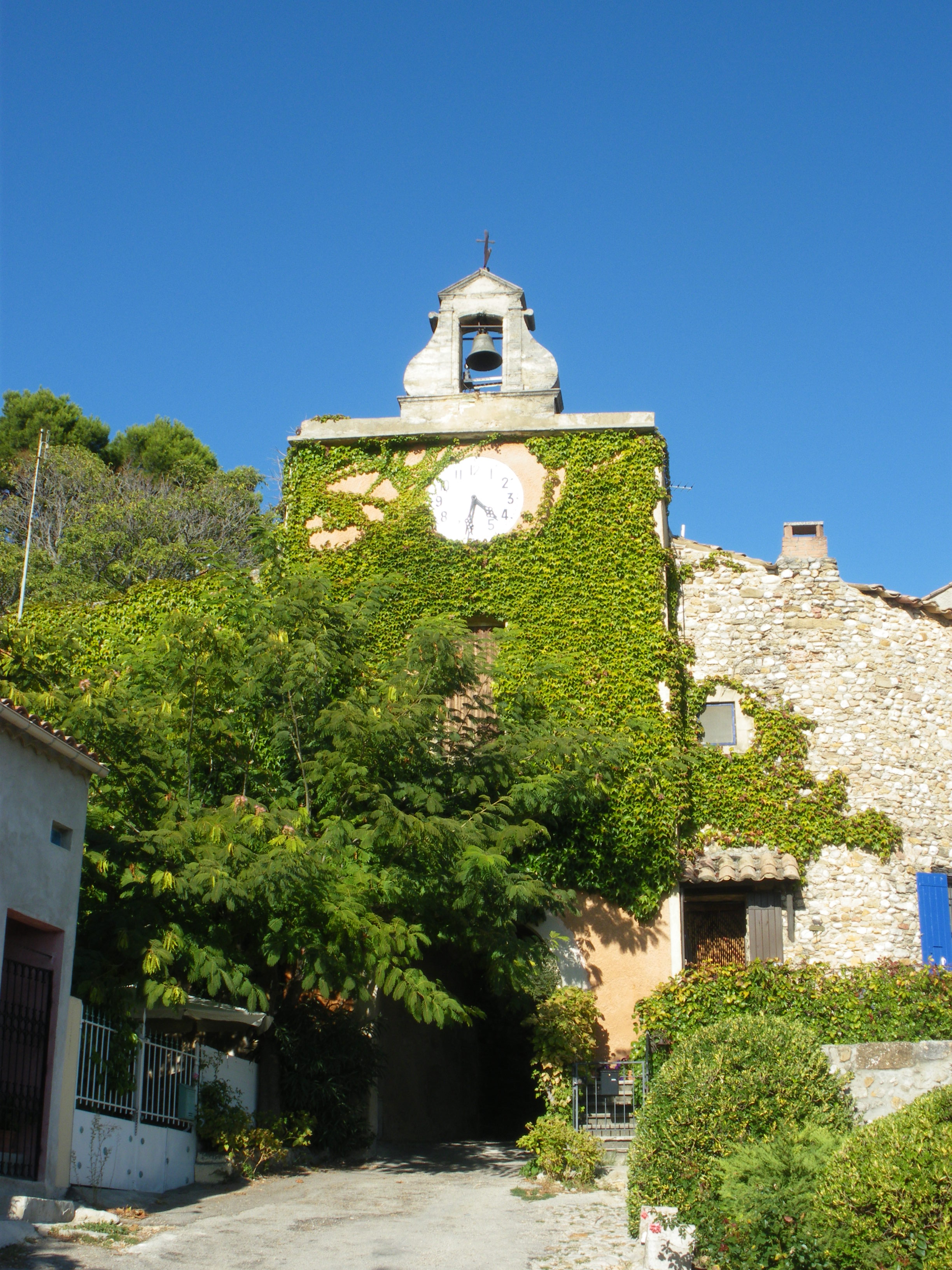 Rasteau, Clock tower, Vaucluse, France